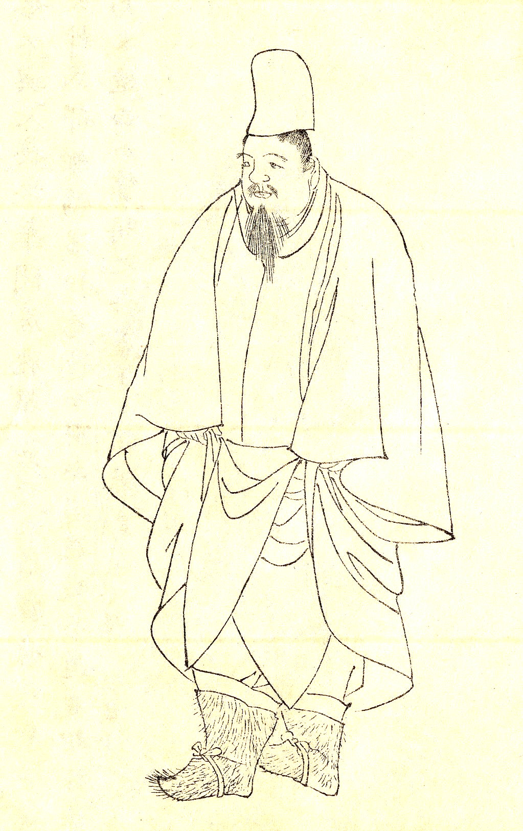 Tachibana no Hiromi(橘廣相) was a Japanese court noble and Scholar in Heian period.